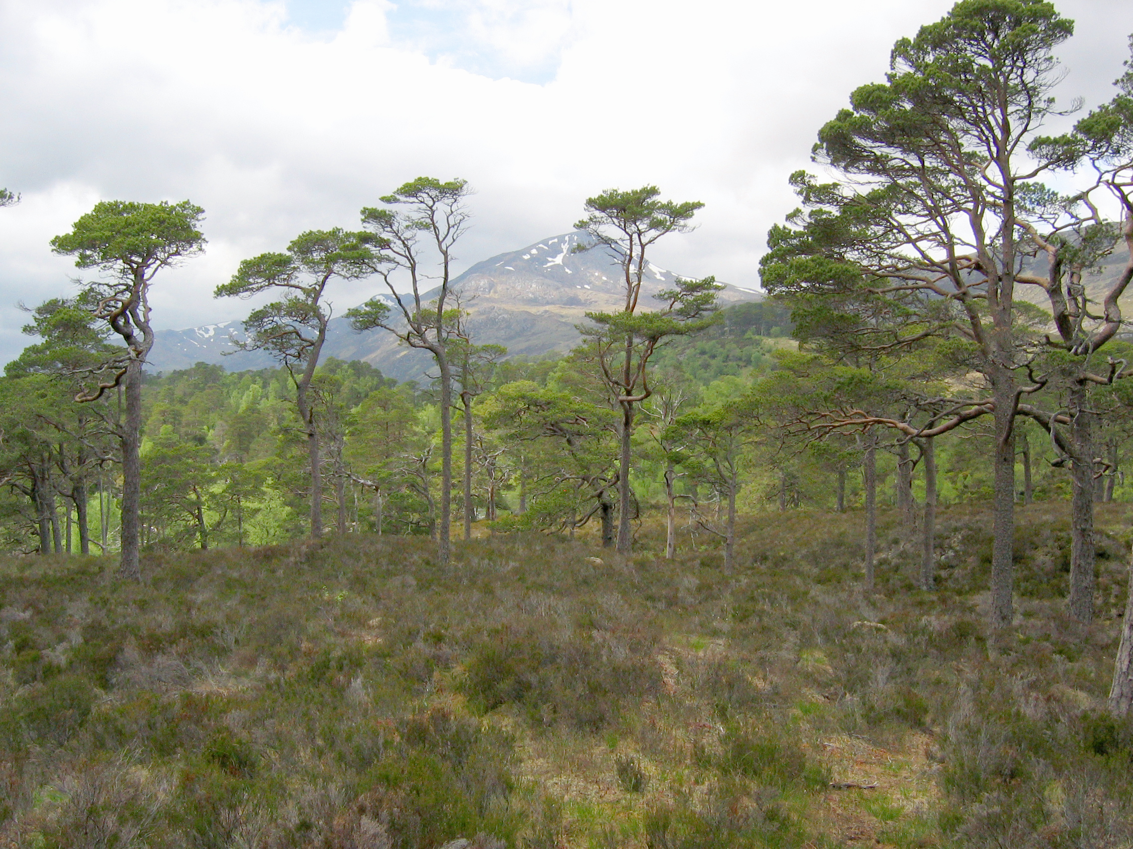 Scots Pine Pinus sylvestris, Sgurr na Lapaich, Glen Affric, Scotland